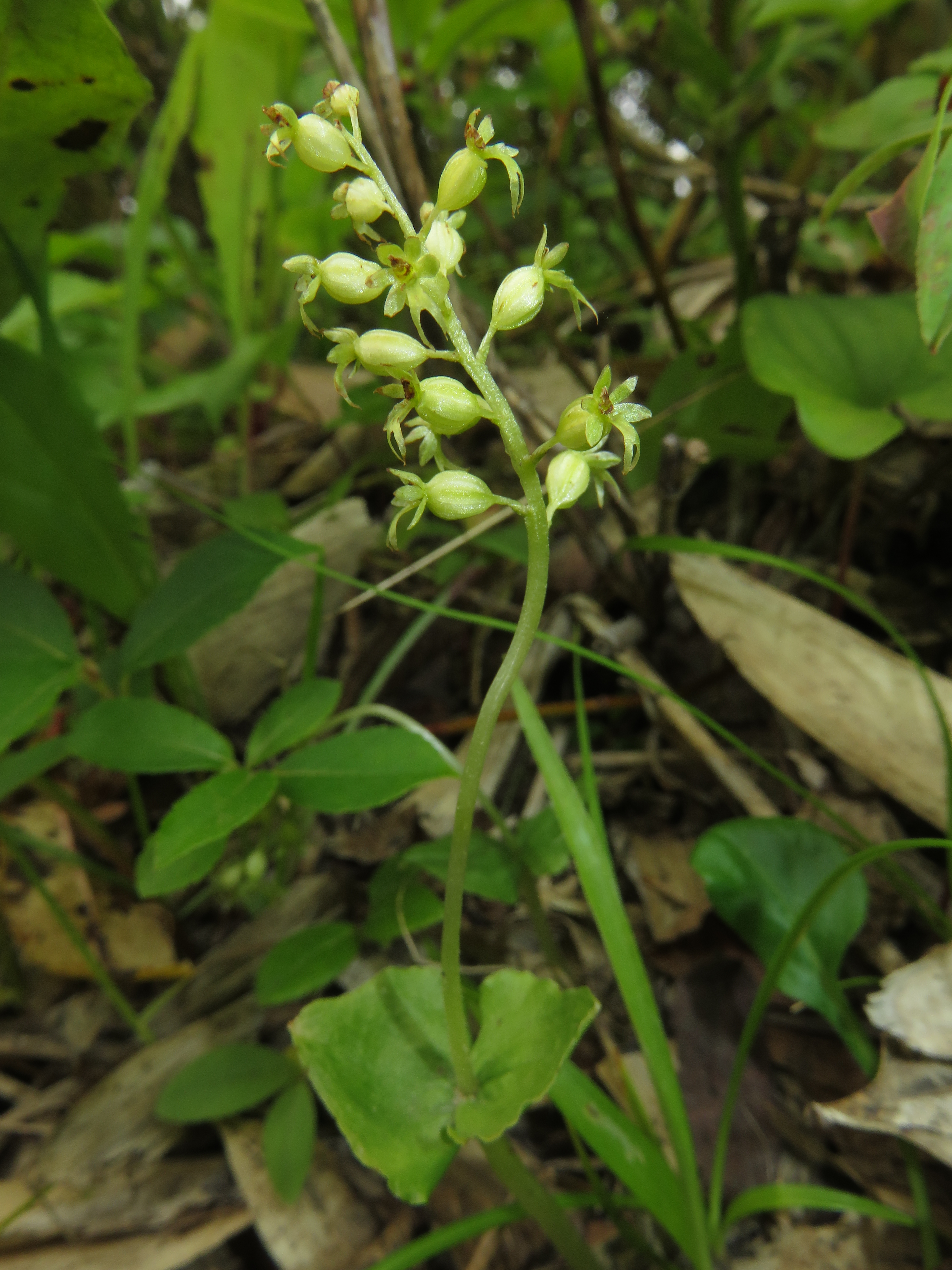 Neottia cordata, Mount Higashi-Azuma, Fukushima pref., Japan